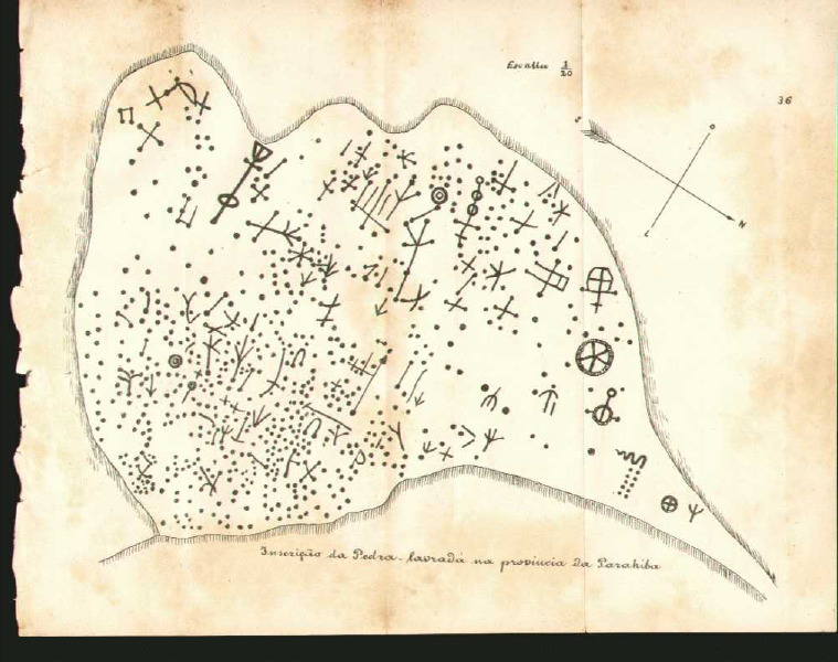 Inscription of Pedra Lavrada, Jardim do Seridó, RN, Brazil. Cf. Medeiros Filho, Olavo de. Os Fenícios do Professor Chovenagua. Edição Especial Para o Projeto Acervo Virtual Oswaldo Lamartine de Faria. .(online)